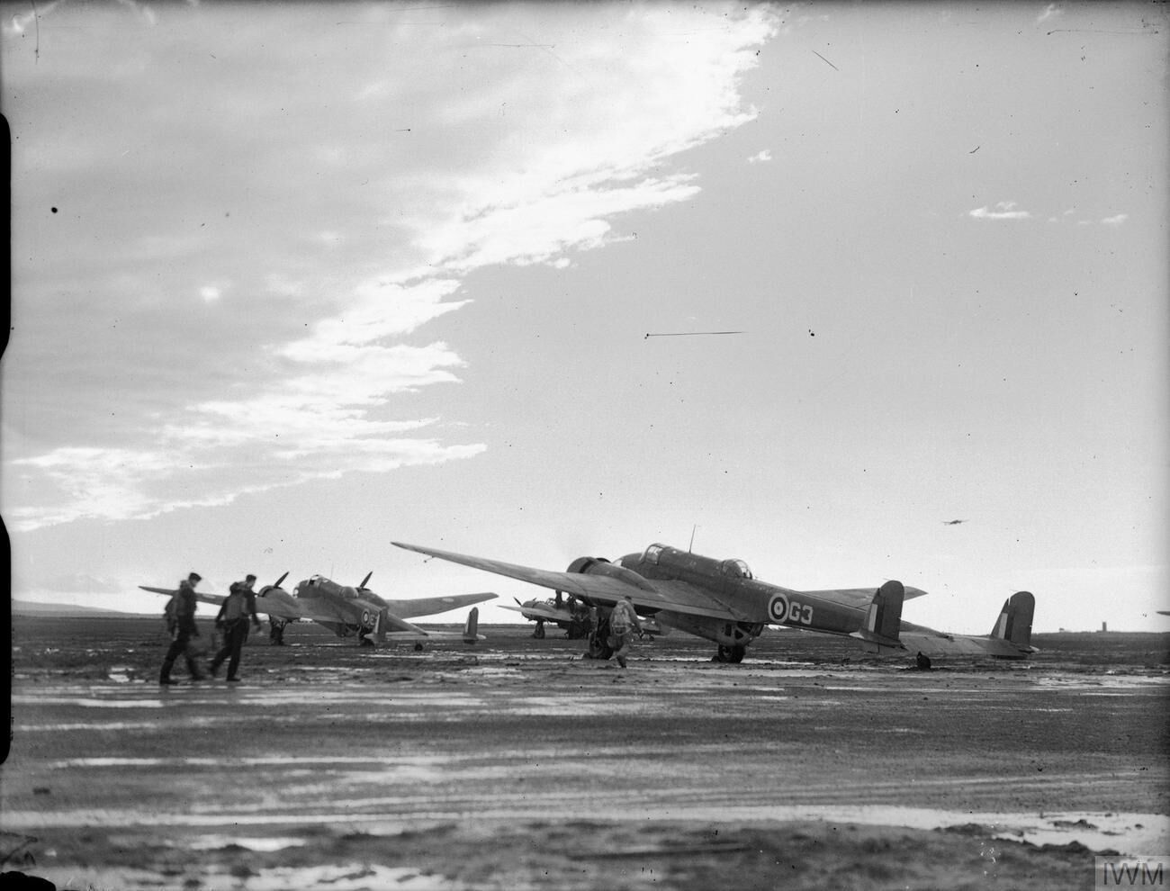 Trainee observers approach Handley Page Hampden Mark Is of No. 5 Air Observers School at RAF Jurby, Isle of Man, for an early morning start.